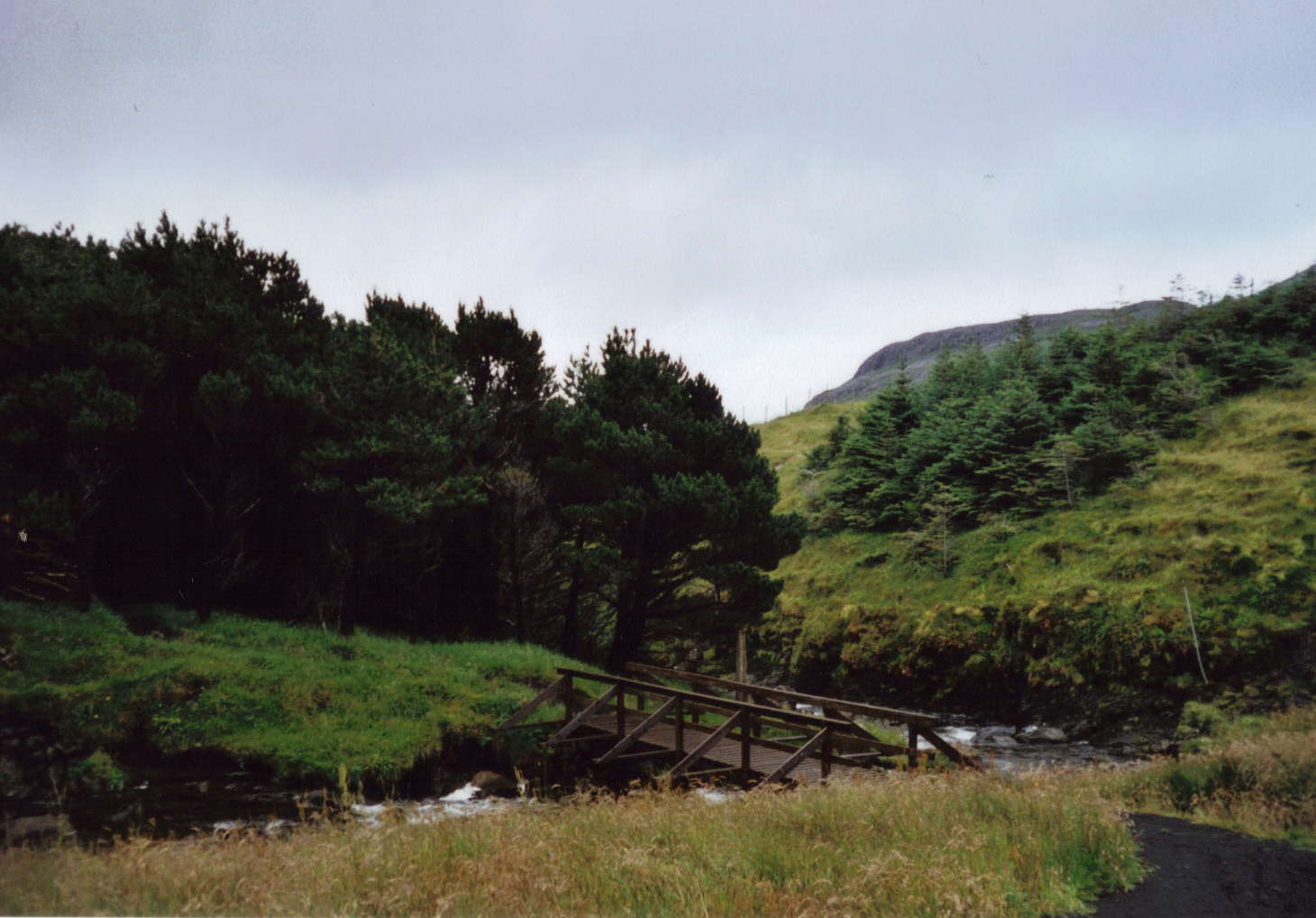 Forest near Trongisvagur, Faroe Islands